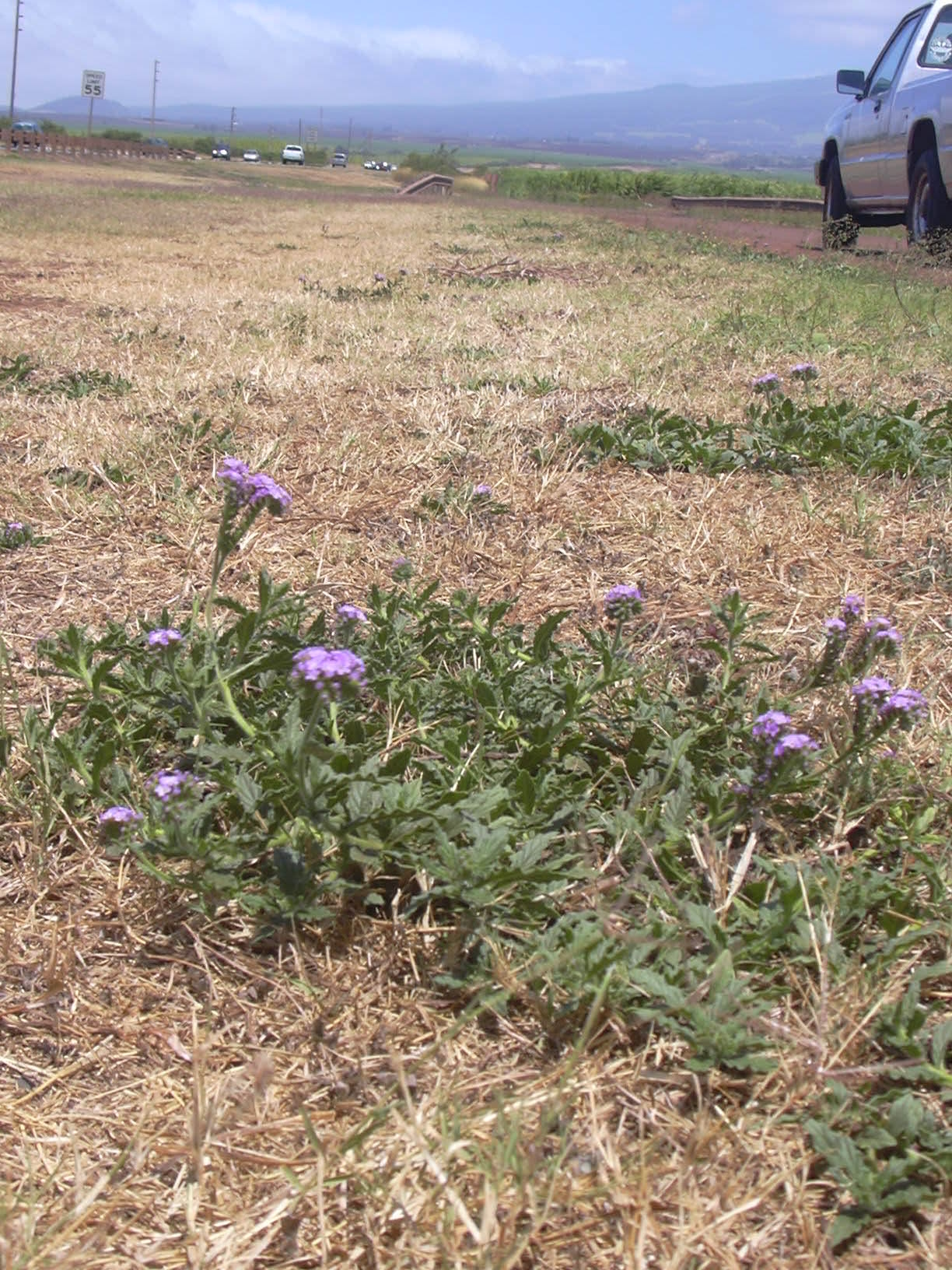 Heliotropium amplexicaule (habit). Location: Maui, Haleakala Hwy